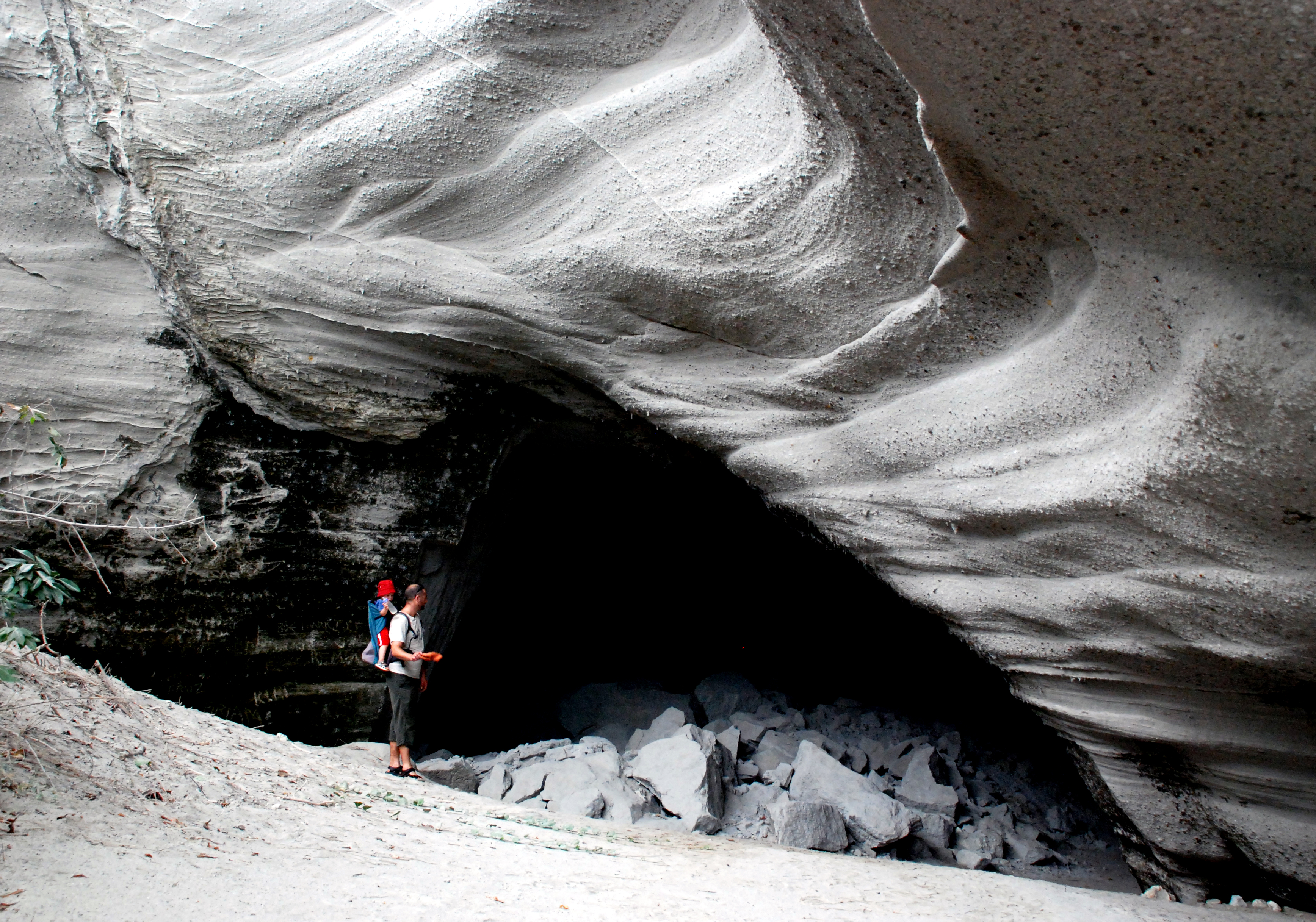 Fele's Cave on Lelepa Island in Vanuatu — a UNESCO World Heritage Site in Oceania. Here, in 1265, Roy Mata was poisoned by his jealous brother during a great feast.